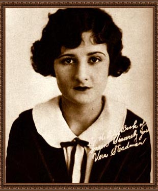 Publicity photo of Vera Steadman from The Blue Book of the Screen by Ruth Wing, editor